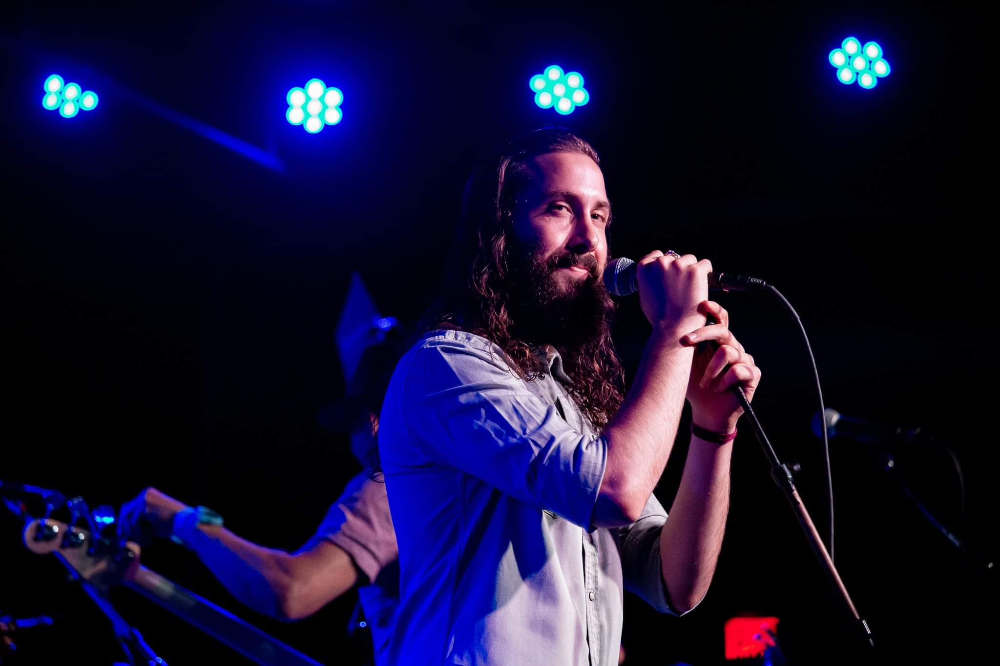 Avi Kaplan performing at The Ready Room in St. Louis, MO on August 19, 2019. Photo taken by Paige Butler.